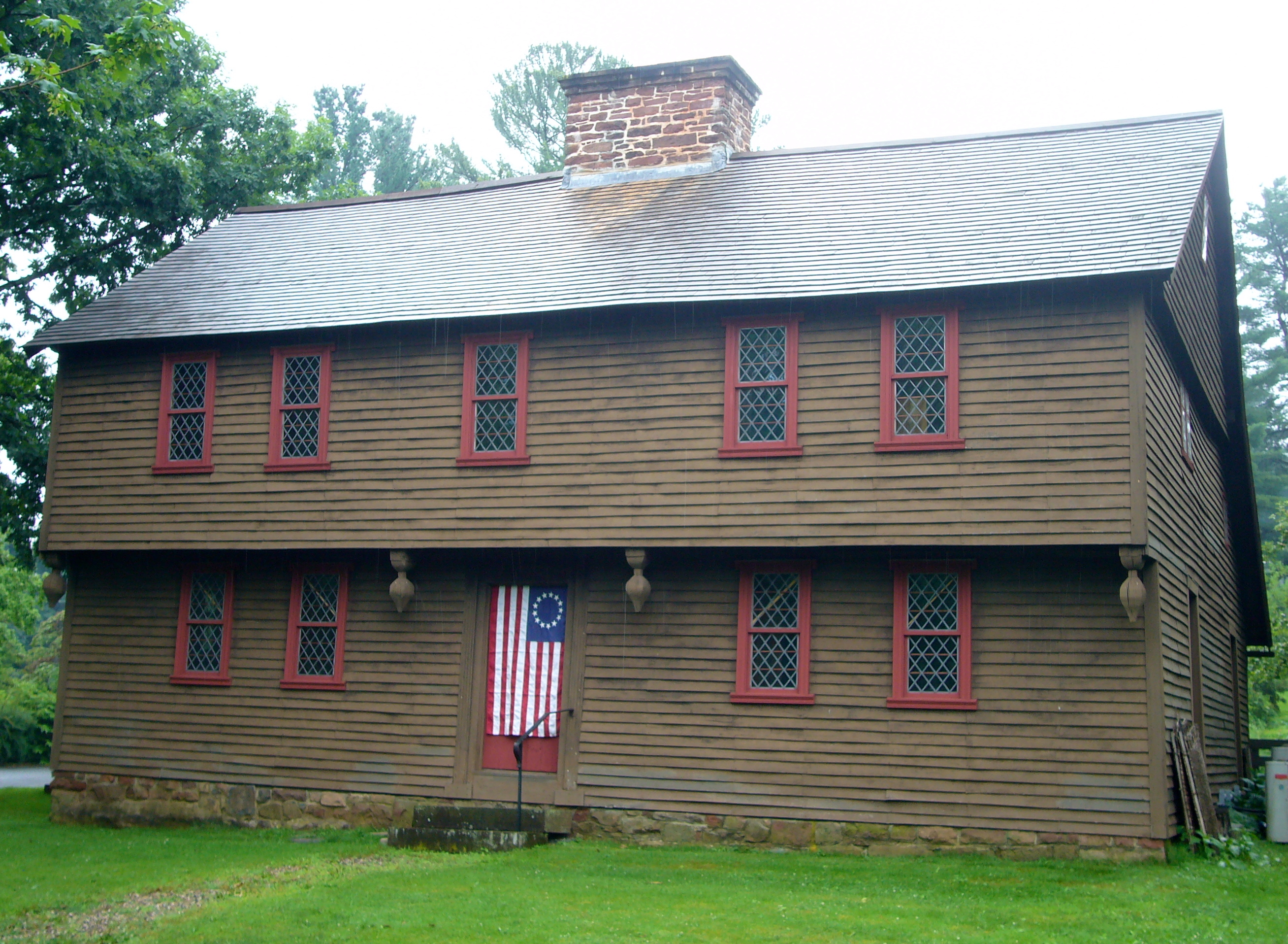 Stanley-Whitman House (exterior), Farmington, Connecticut, USA